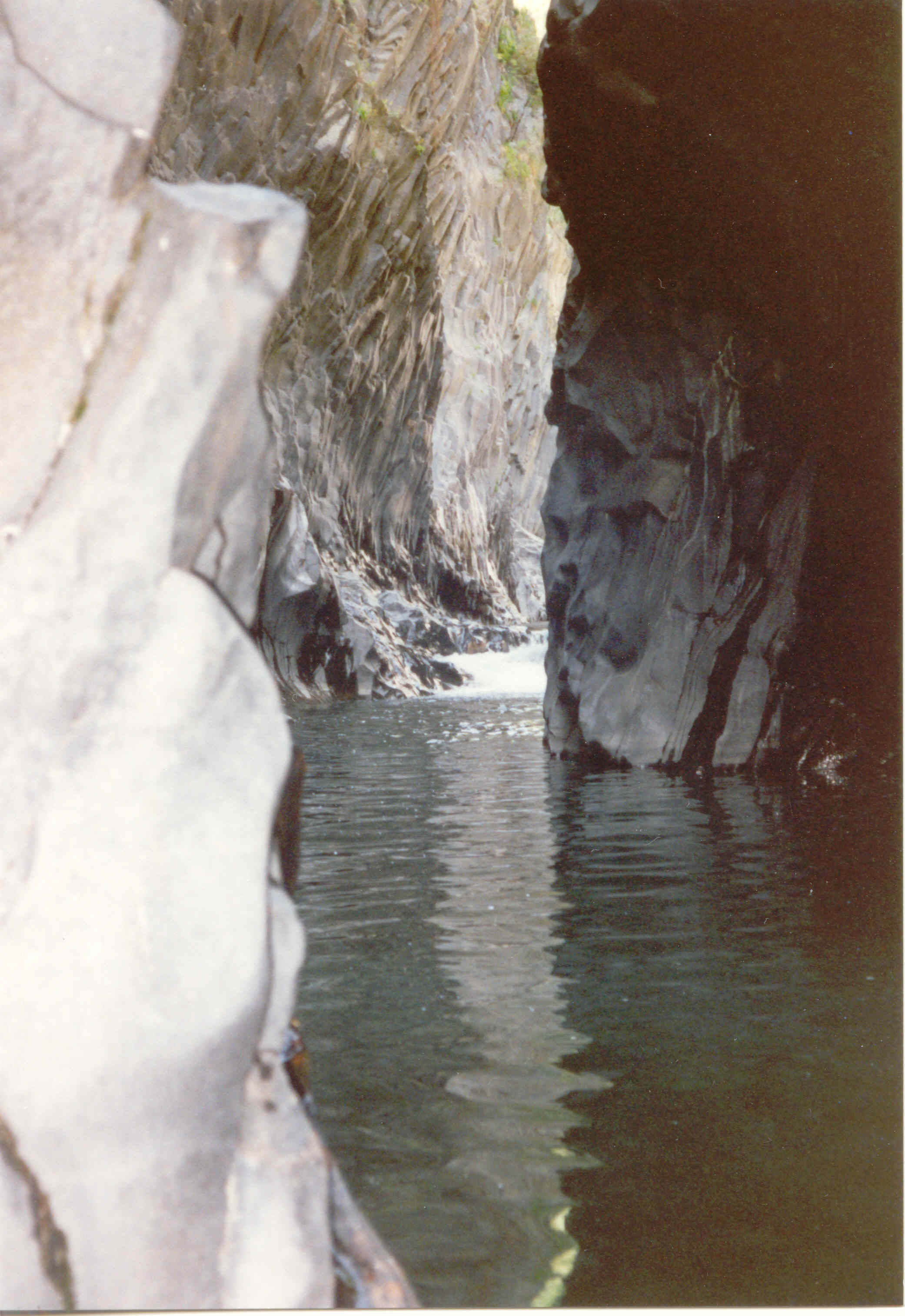 The Gole dell'Alcantara in Sicily, town of Motta Camastra, province of Messina.